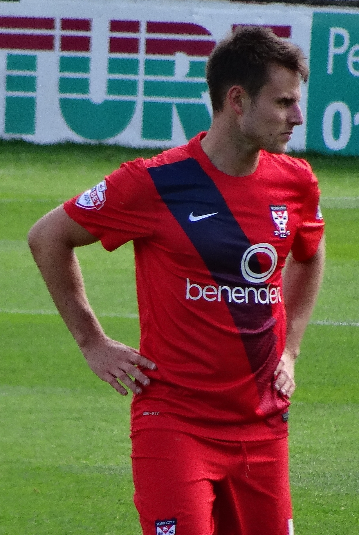 James Berrett playing for York City against Hartlepool United at Bootham Crescent, York on 15 August 2015